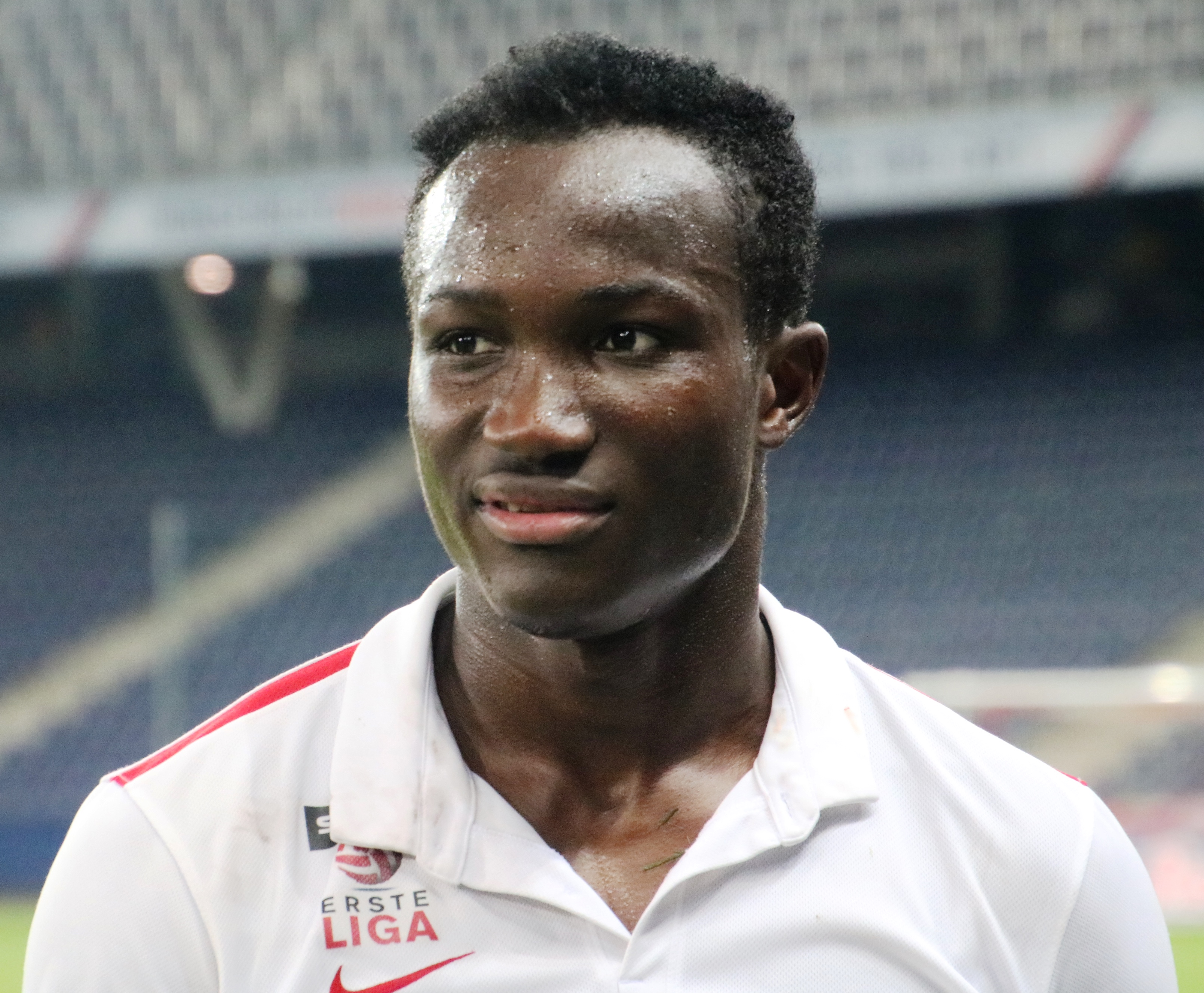 league match Austria 2nd league